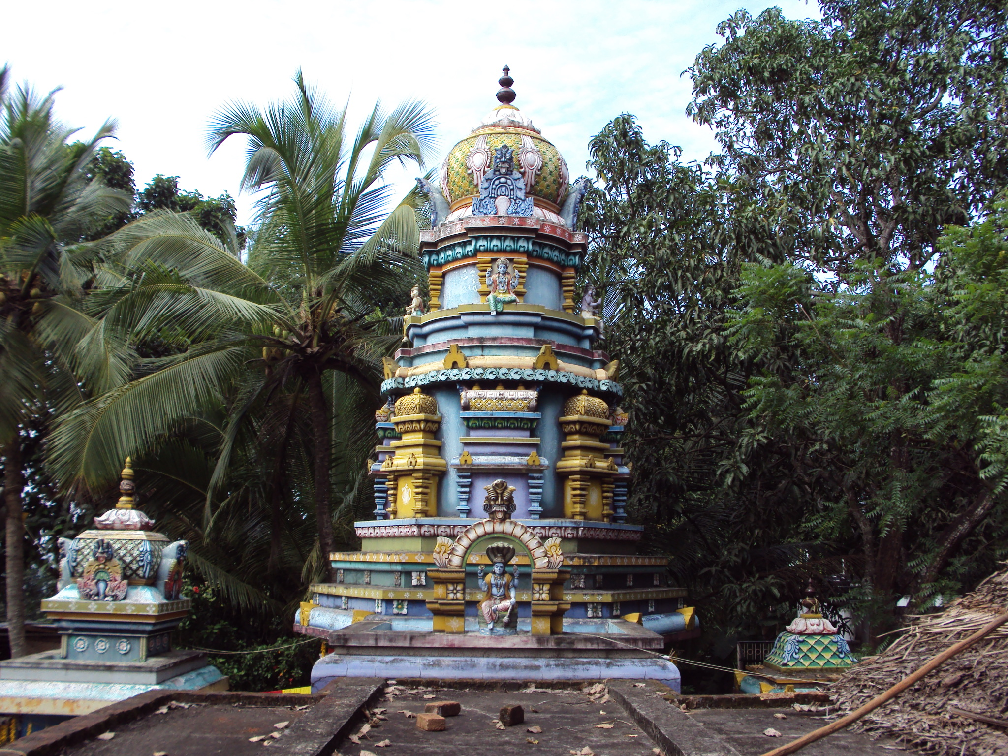 SreeKrishna